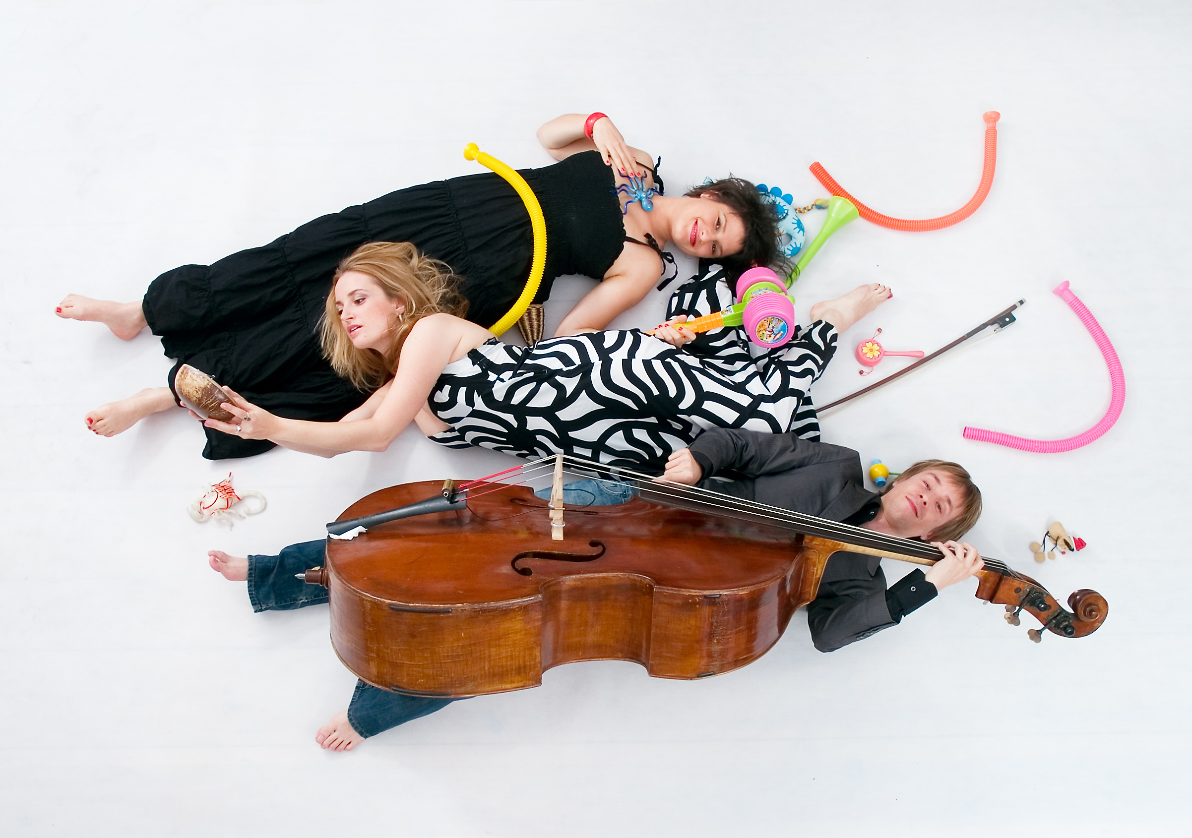 Dagadana - polish-ukrainian band, photo from cd "Malenka" by Dagadana